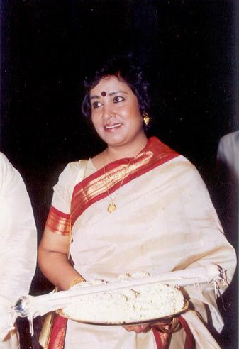 Taslima Nasreen receiving Ananda Award.